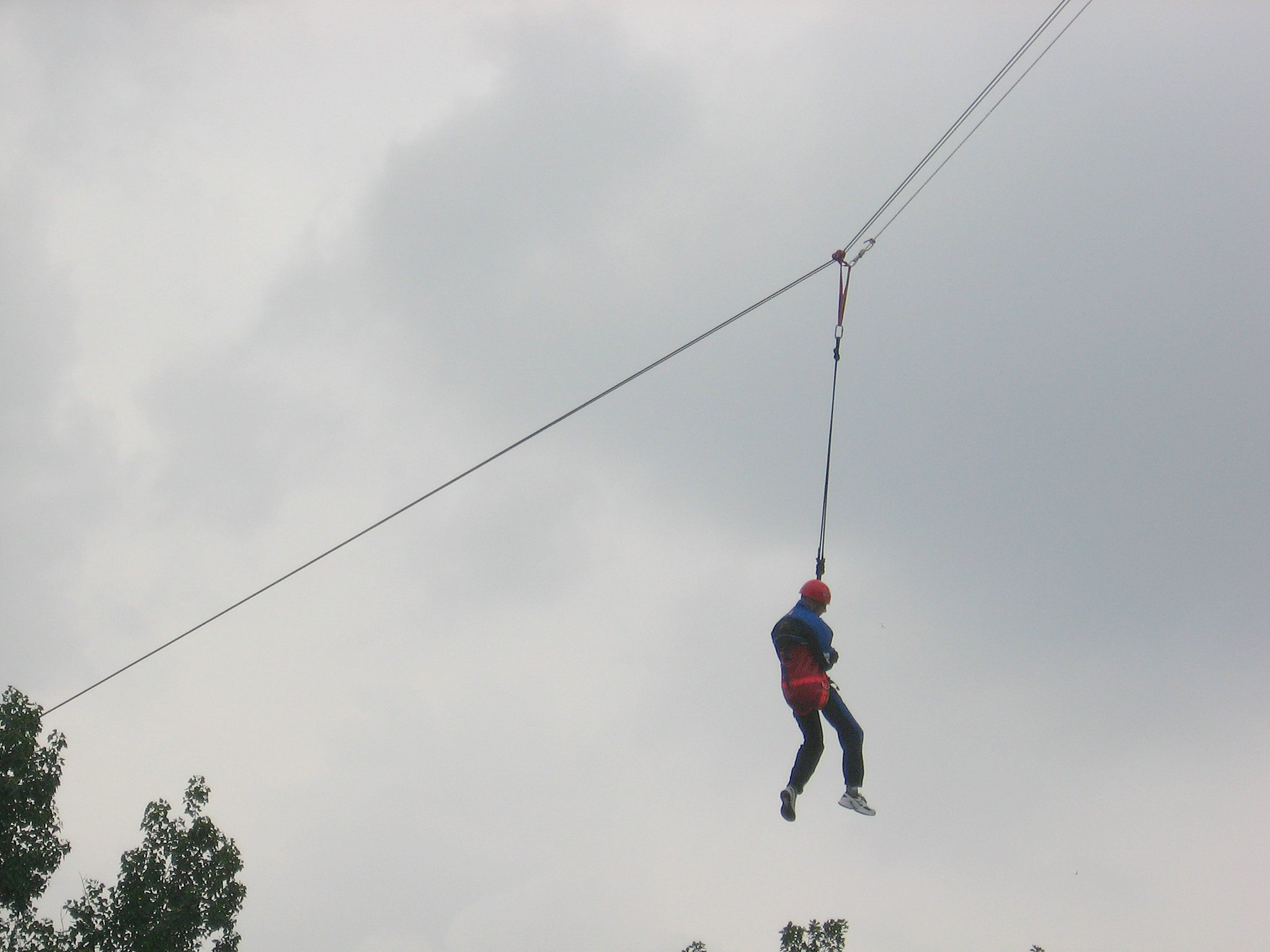 evacuation from high building using Tyrolean crossing